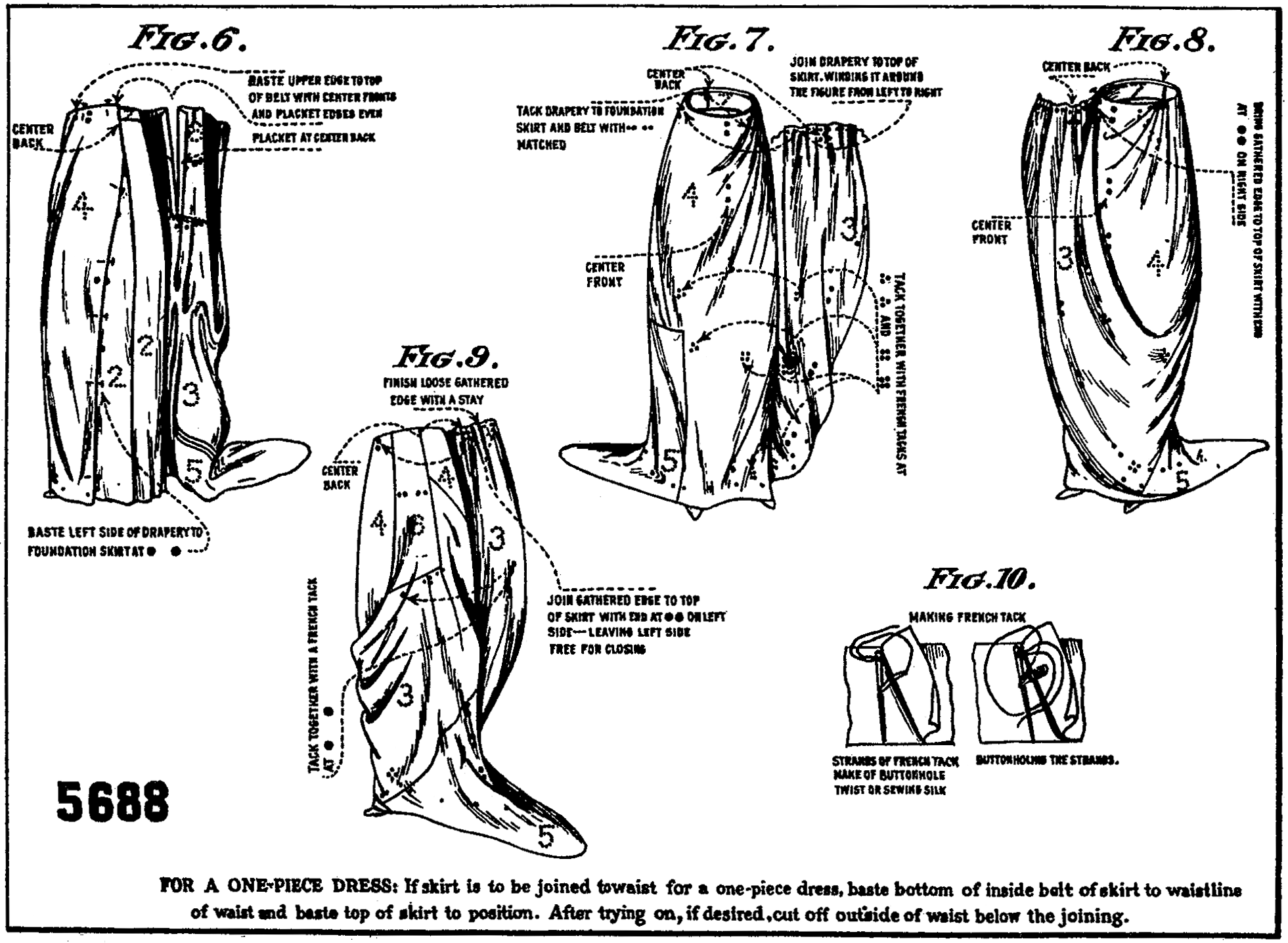 Back of "Deltor" (instruction sheet) for Butterick pattern 5688, a skirt for an evening dress, extracted from patent US1313496 (patent for instruction sheet). For front, see "Deltor for Butterick 5688 from patent US1313496.gif" For schematic of pattern pieces, see "Schematic for Butterick 5688 from patent US1313496.gif"